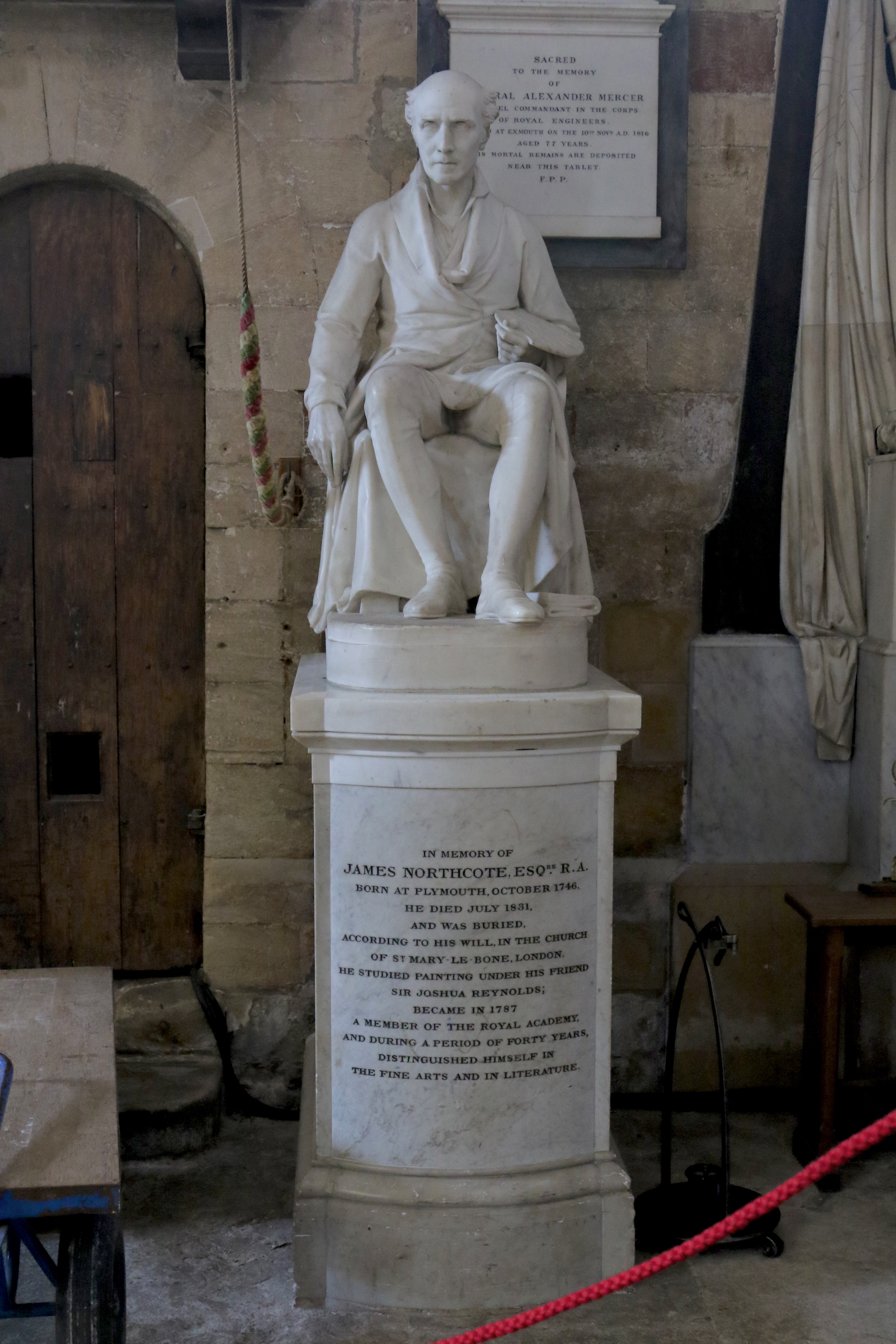 James Northcote Esq. R.A. Born October 1746. Died July 1831.